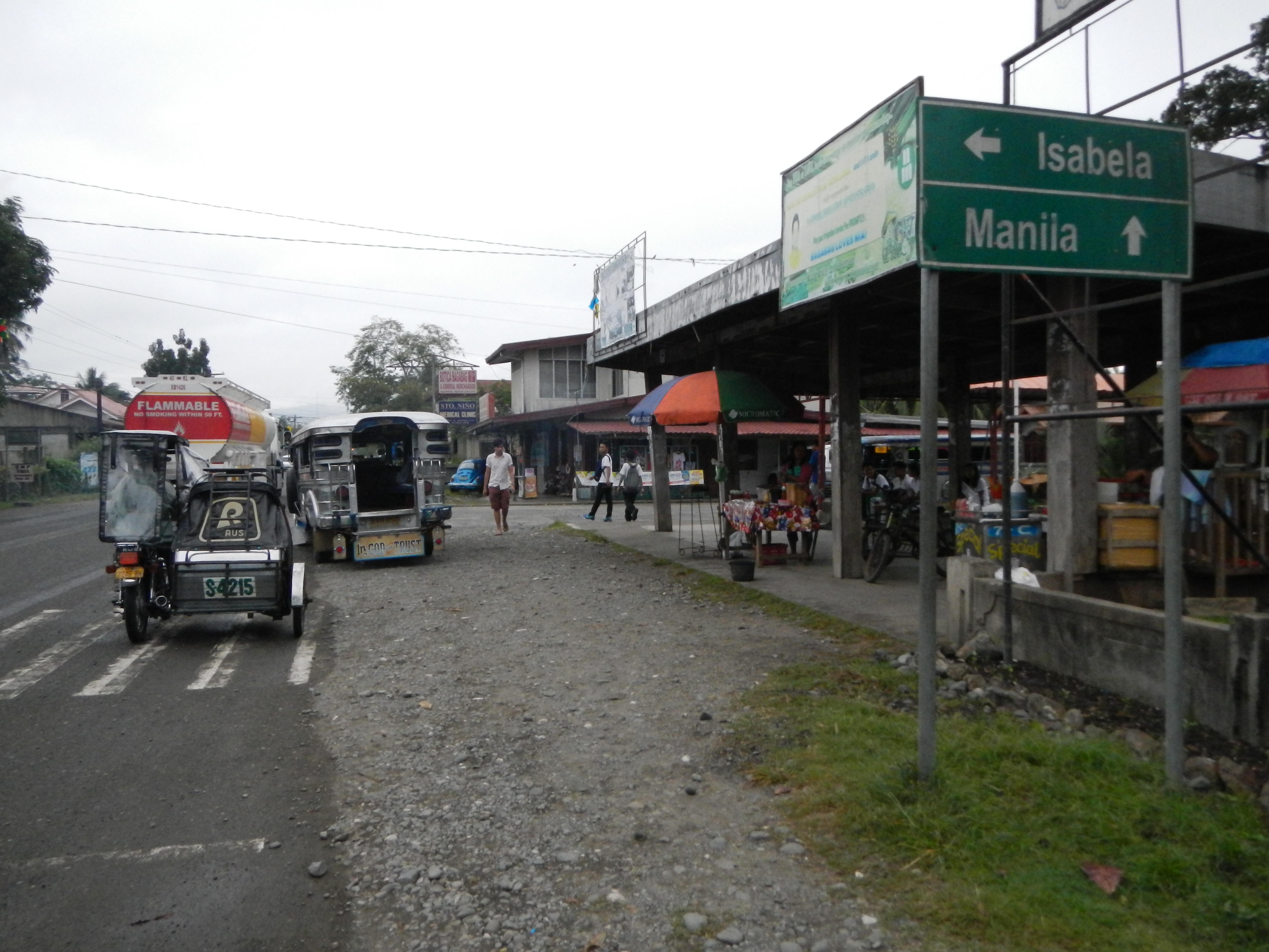 Upload Wizard Panorama photos of -- (general description of landmarks, town, Church, going to dark, sunset conditions) - along the National Highway - towards Barangay Murong scenery National Highway of - Bagabag, Nueva Vizcaya[1] (2nd class municipality in the province of Nueva Vizcaya, Philippines politically subdivided into 19 barangays) into the Town Proper, Town Plaza, Town Hall, Capt. Jose P. Castillo M.M. Sports and Cultural Center, MCTC Court, Saint Jerome Parish Church of Bagabag beside St. Jerome's Academy, all located in .San Pedro, Nueva Vizcaya[2] San Pedro is one of the barangays of municipality of Bagabag, in the Philippine province of Nueva Vizcaya located in the town proper of poblacion - Politically and geographically, it is divided into 5 puroks (Purok 1, Purok 2, Purok 3, Purok 4 and Purok 5).